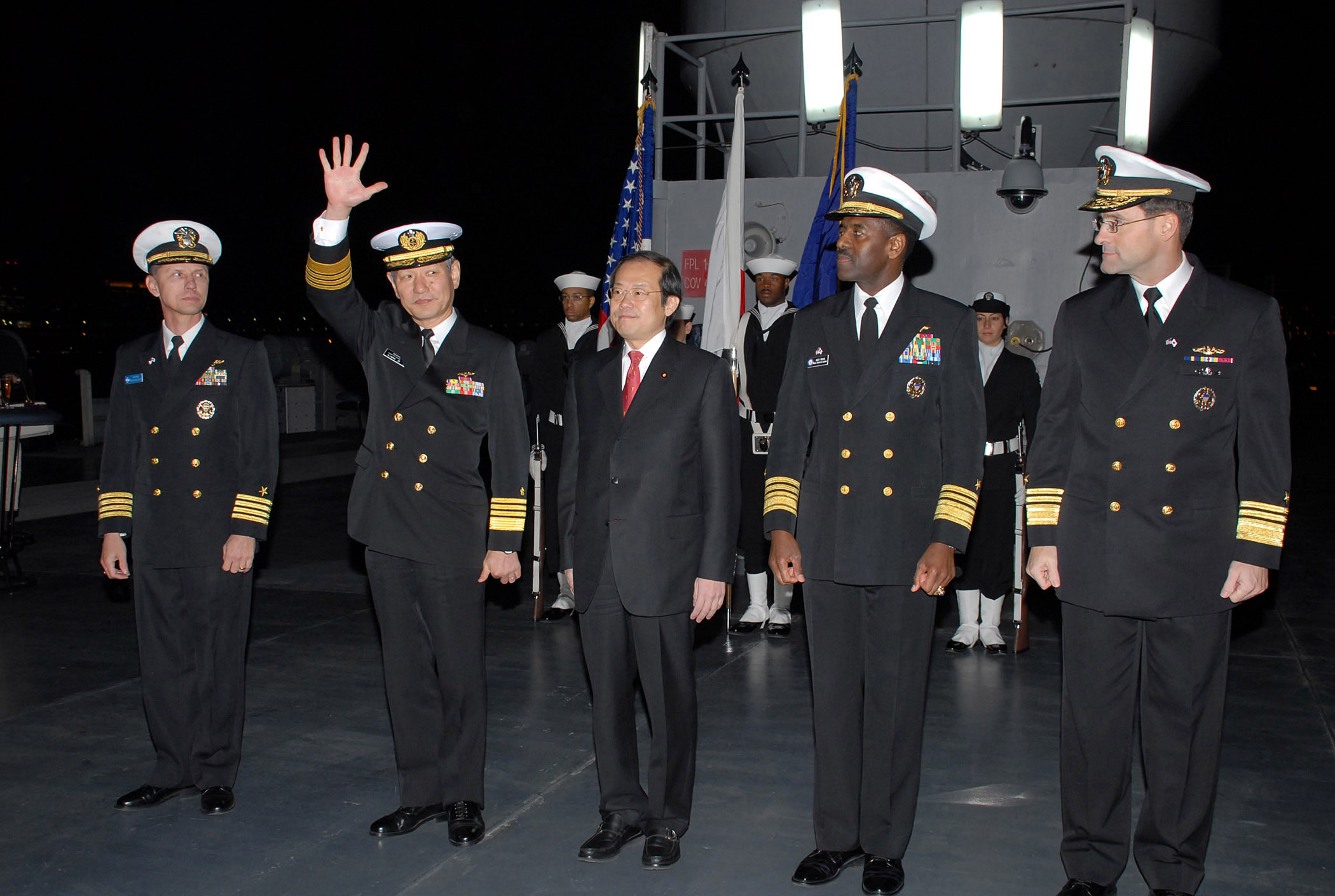 TOKYO (Dec. 6, 2008) Adm. Keiji Akahoshi, Japan Maritime Self-Defense Force Chief of Staff, waves as he stands with Capt. Thom Burke, left, commanding officer of the amphibious command ship USS Blue Ridge (LCC 19); Yoichiro Esaki, member of the Japan House of Representatives; Vice Adm. Anthony Winns, U.S. Naval Inspector General; and Vice Adm. John M. Bird, commander, U.S. 7th Fleet, during a reception aboard Blue Ridge. The reception honors the U.S.-Japan alliance and the strong relationship between the U.S. Navy and Japan Maritime Self-Defense Force. Additionally, participants celebrated the 100th anniversary of the Great White Fleet, which visited Japan in 1908. (U.S. Navy photo by Mass Communication Specialist 2nd Class Matthew Schwarz/Released)